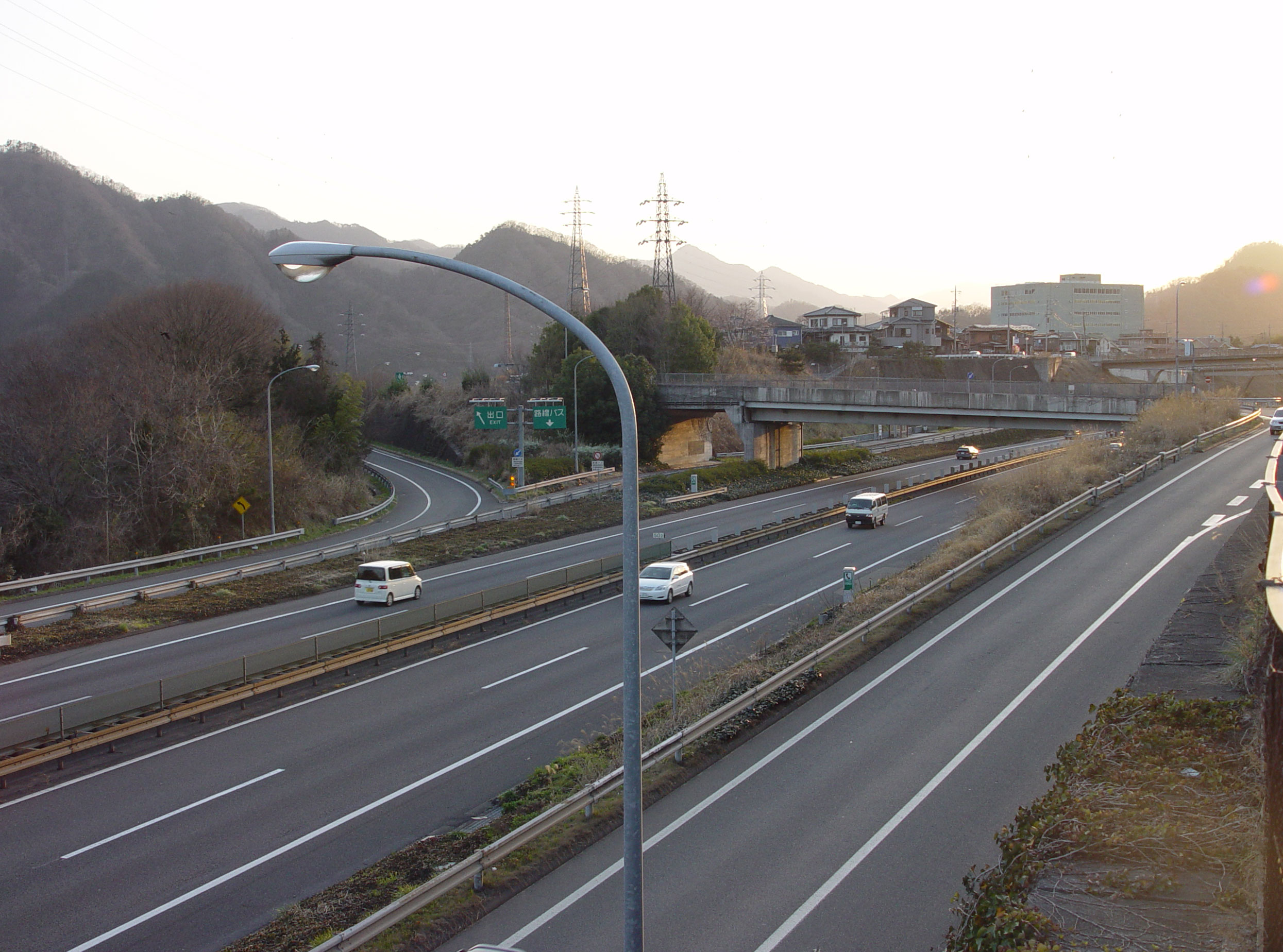 Uenohara Interchange and Uenohara Bus Stop on the Chuo Expressway